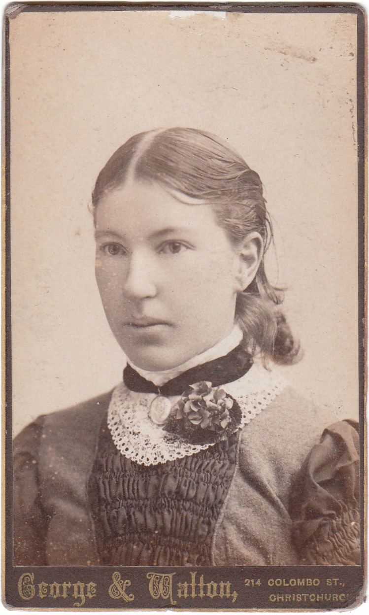 Carte de visite of an unidentified woman produced by George & Walton.